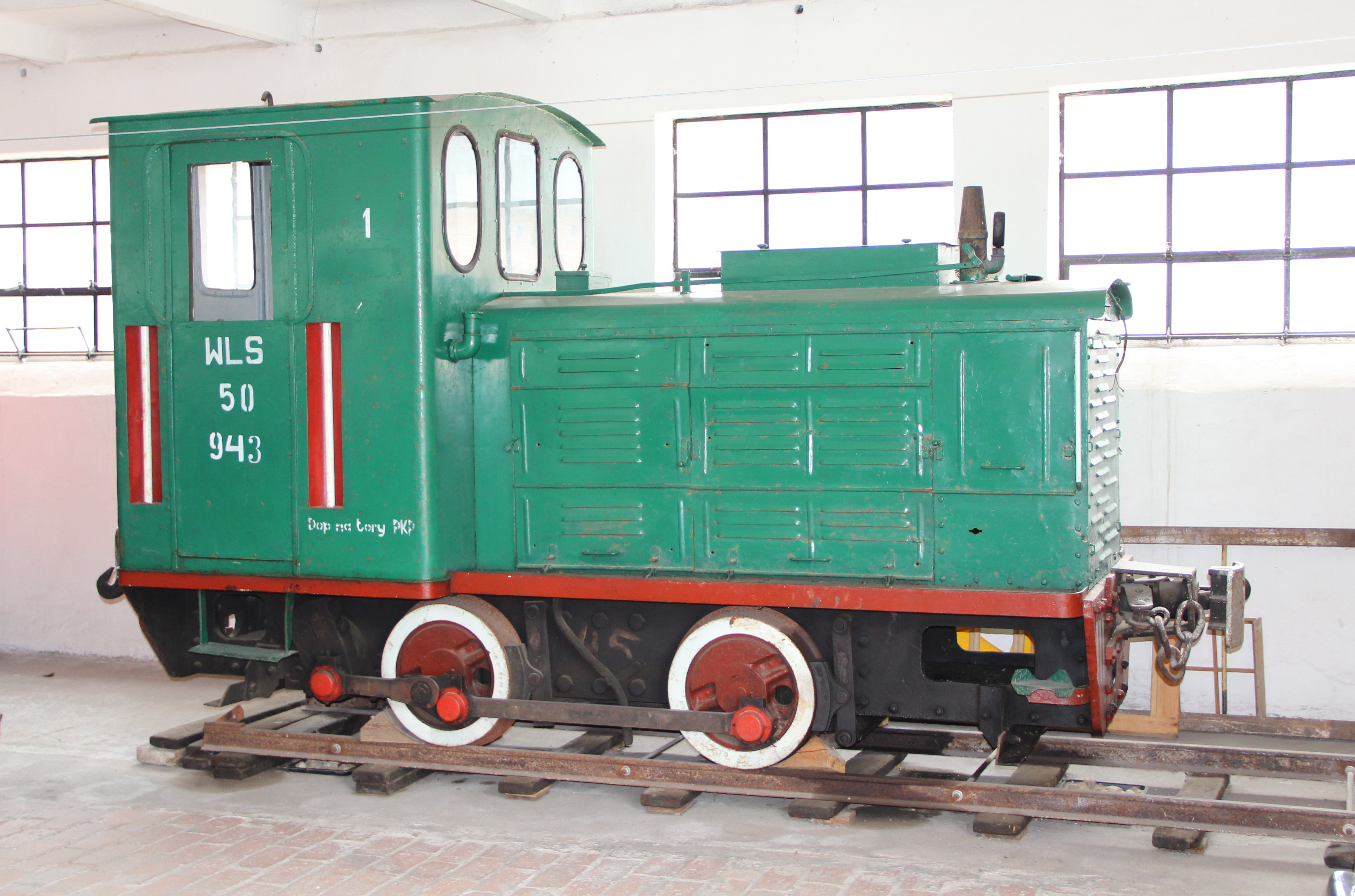 National Museum of Agriculture in Szreniawa